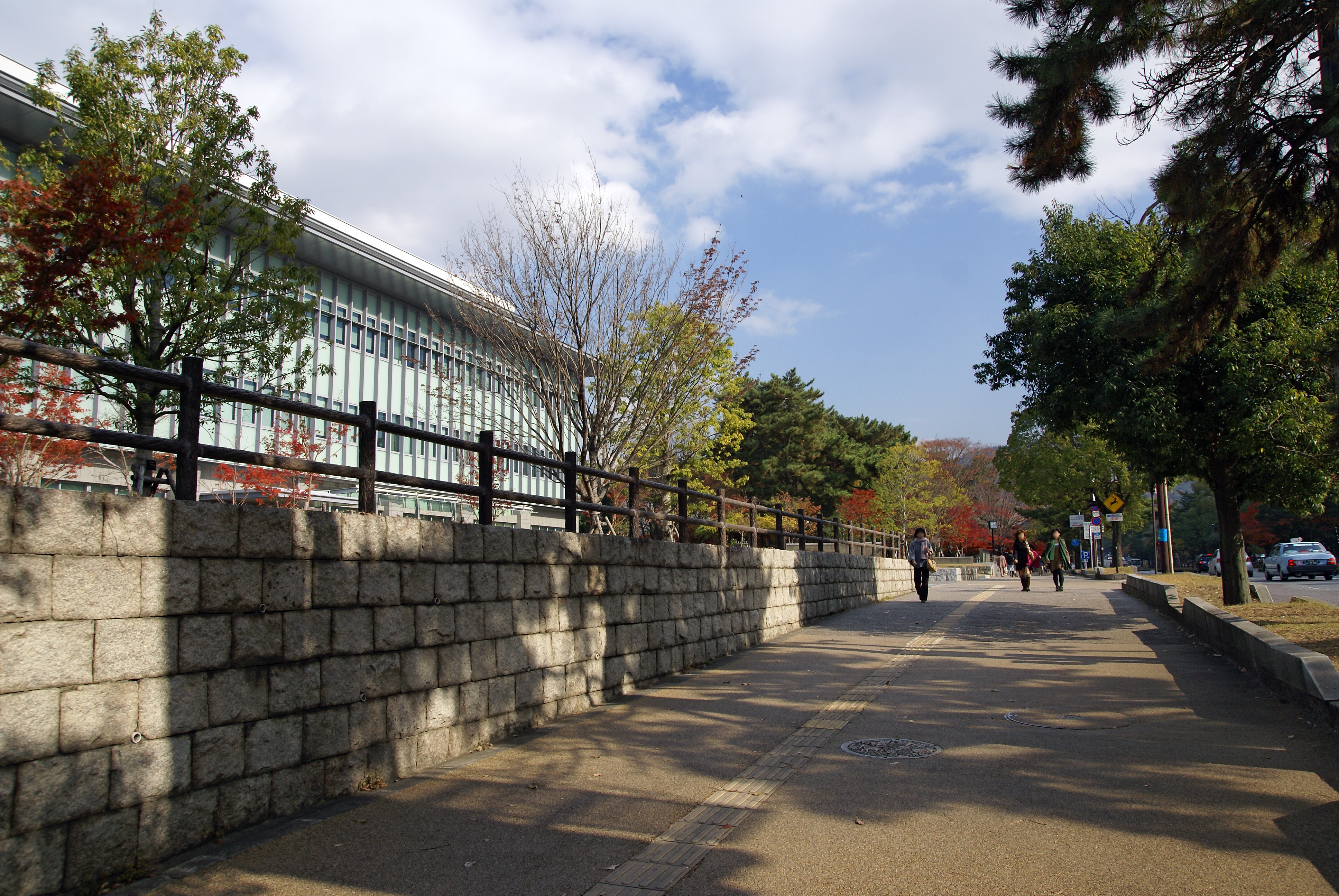 Nara District Court in Nara, Nara prefecture, Japan